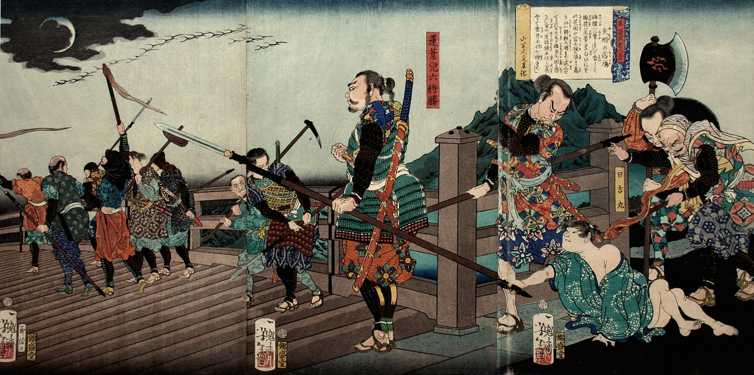 an ukiyo-e of Hiyoshimaru who meets Hachisuka Koroku on Yahabi bridge.